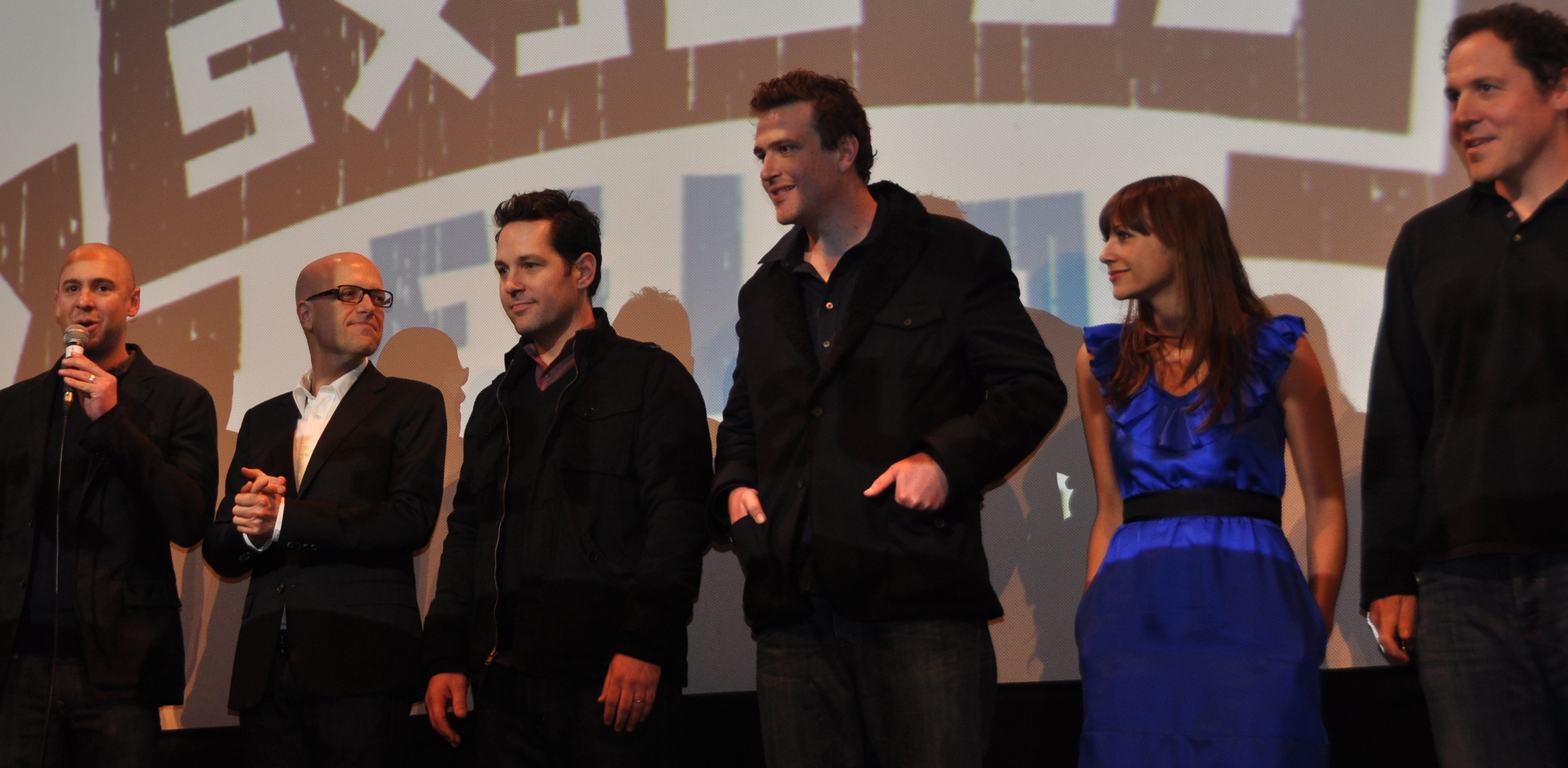 John Hamburg, Larry Levin, Paul Rudd, Jason Segel, Rashida Jones, and Jon Favreau at the Austin, TX premiere of I Love You, Man